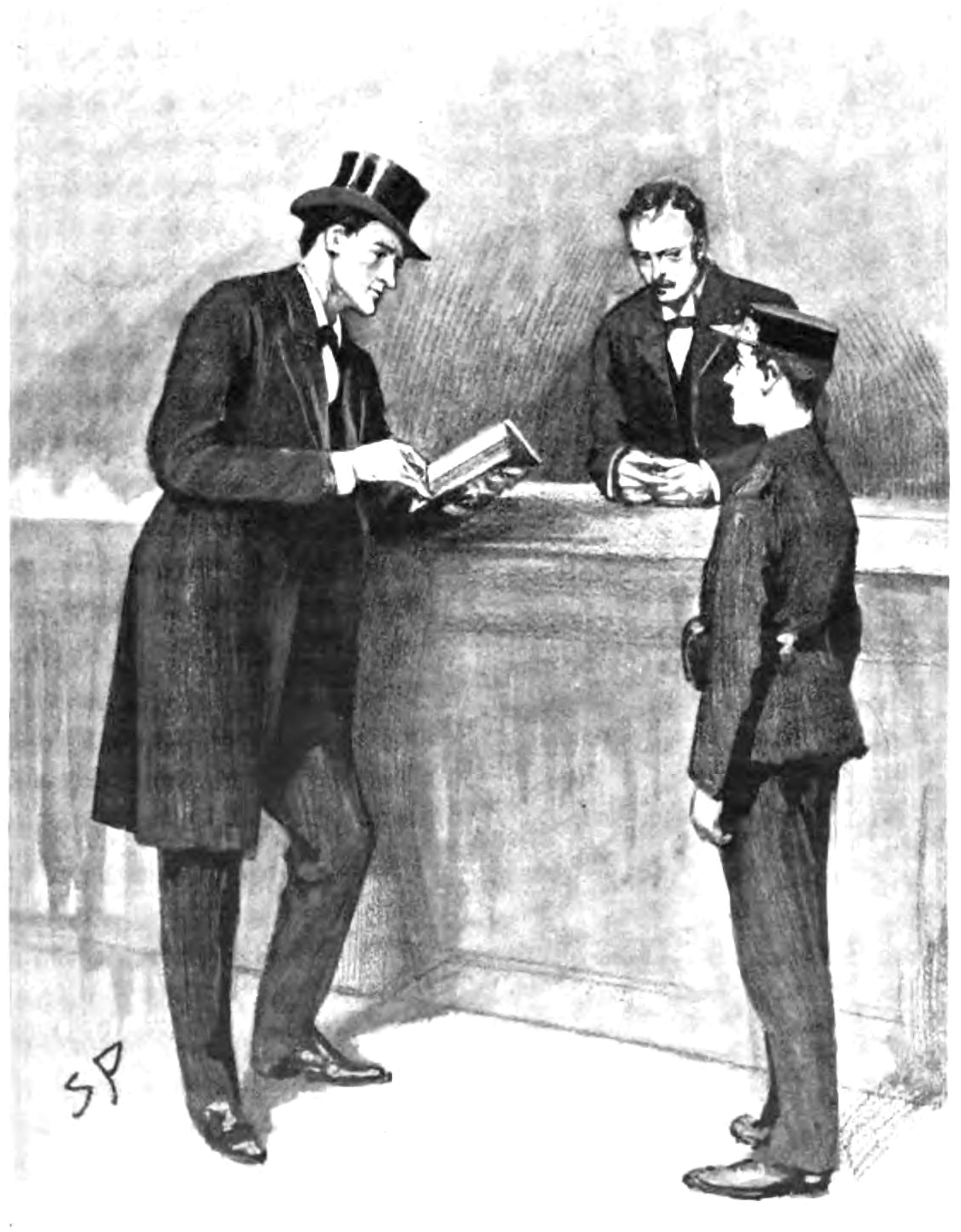 Illustration of the Sherlock Holmes adventure The Hound of the Baskervilles. Illustration appeared in The Strand Magazine in September, 1901. Original caption was "HERE ARE THE NAMES OF TWENTY-THREE HOTELS."